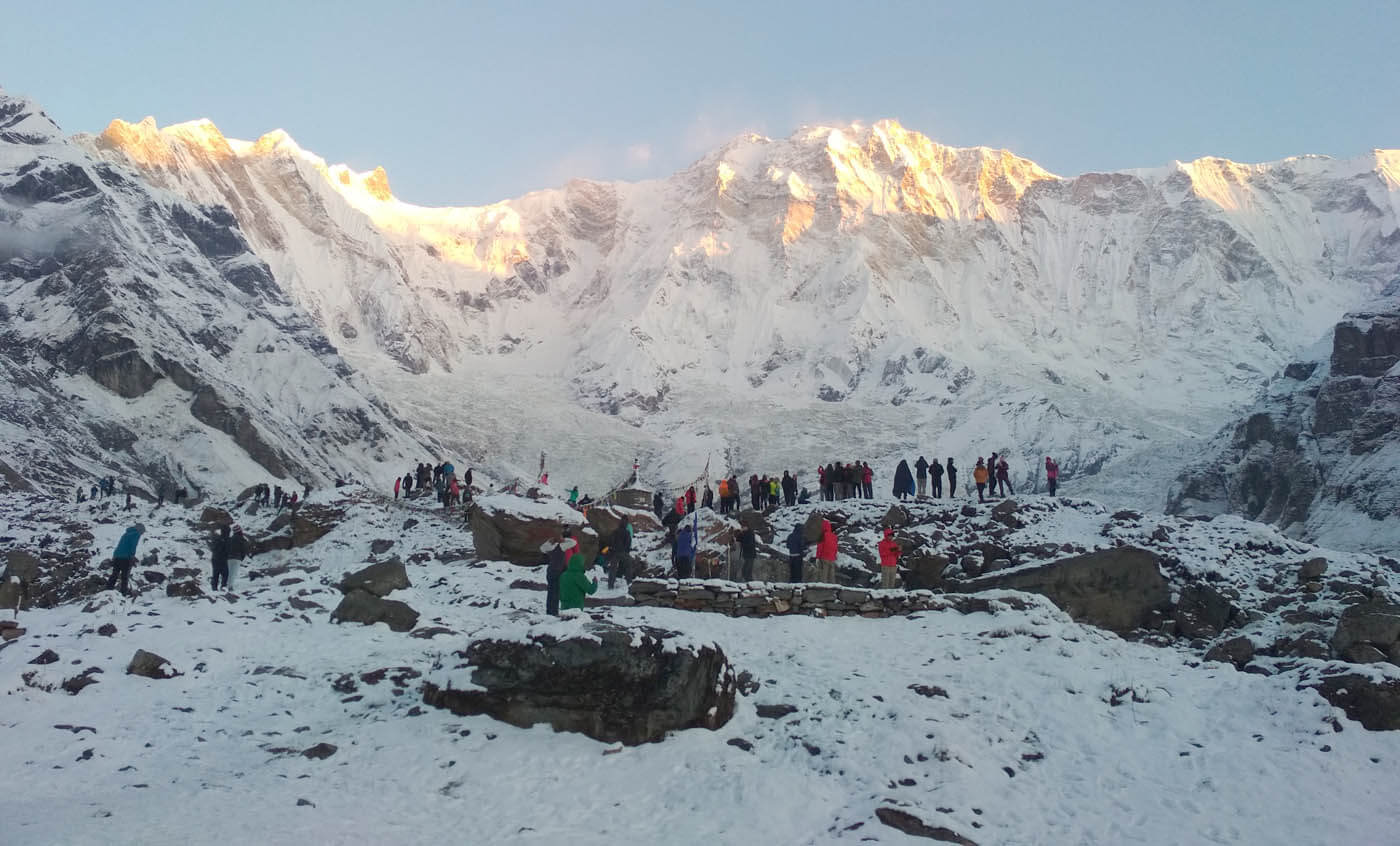 We took this picture from behind the hotel of Annapurna base camp from the view point